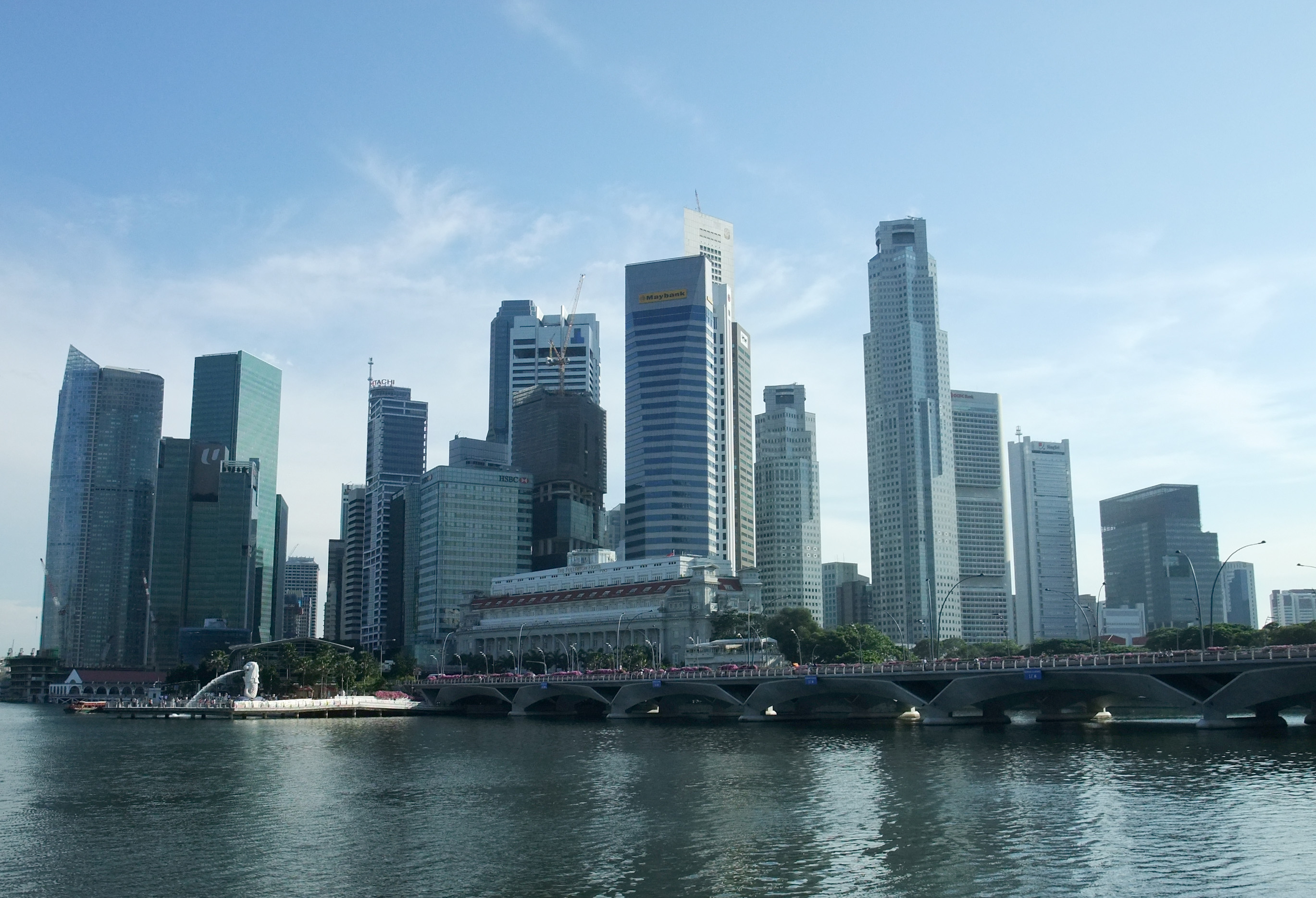 Singapores Skyline in 2009